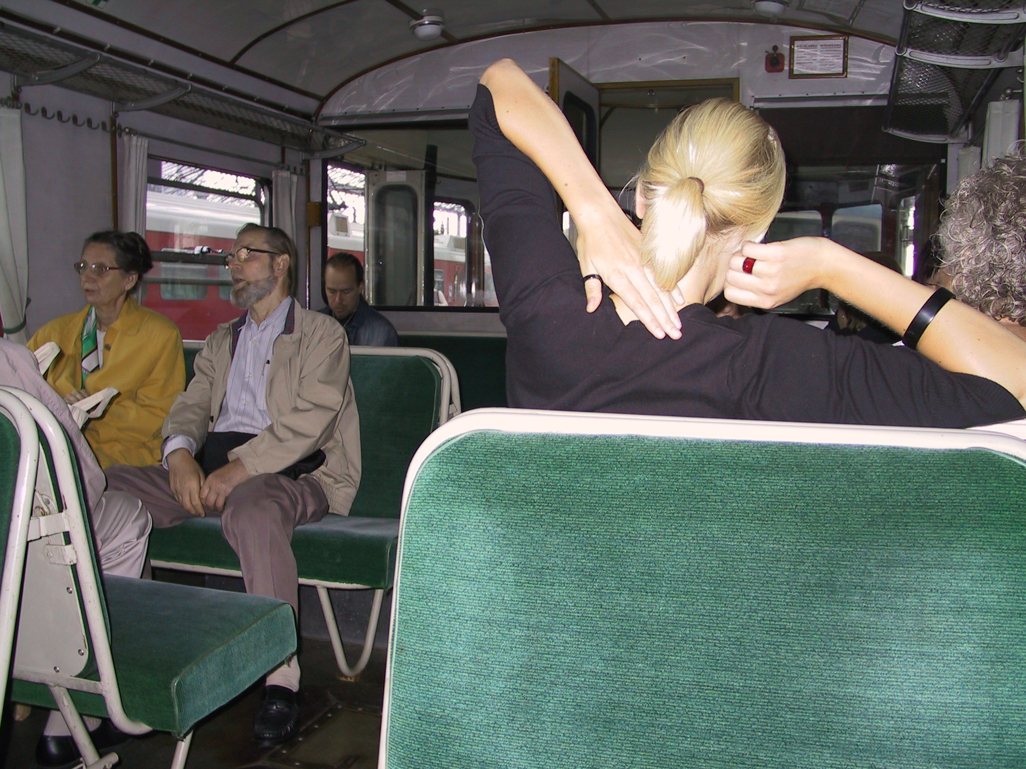 Interior and passengers on a museum railbus DM7 made by Valmet and owned by Porvoo Museum Railway Society, photo taken in Helsinki Central Railway station, Finland.